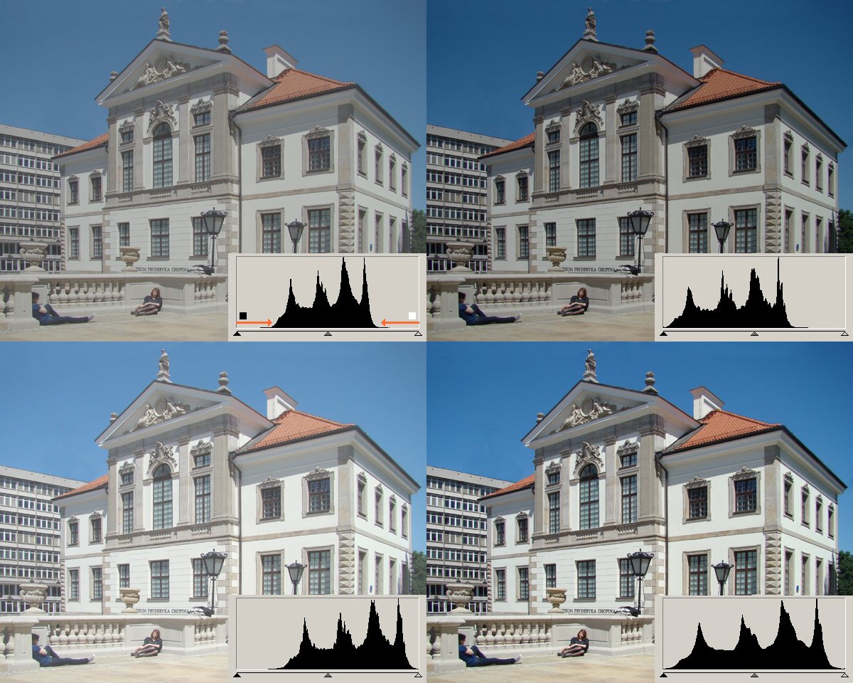 Contrast improvement using PhotoShop image editor